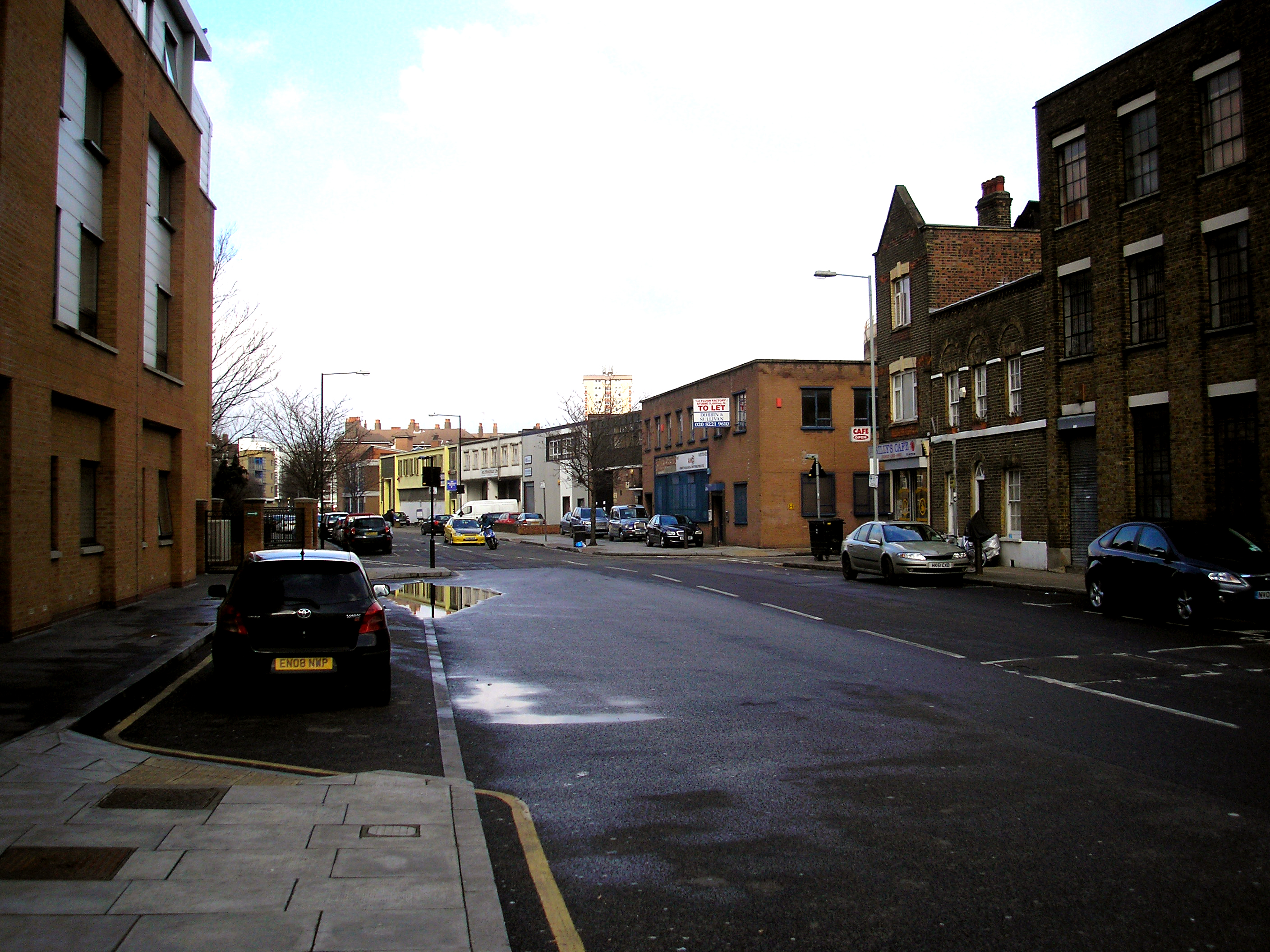 Bethnal Green: Pritchard's Road This road runs north from its T-junction with Hackney Road,picking up Goldsmith's road which trails in from the left, to cross the Regent's Canal at Cat & Mutton Bridge, where it enters the London Borough of Hackney and changes its name to Broadway Market.